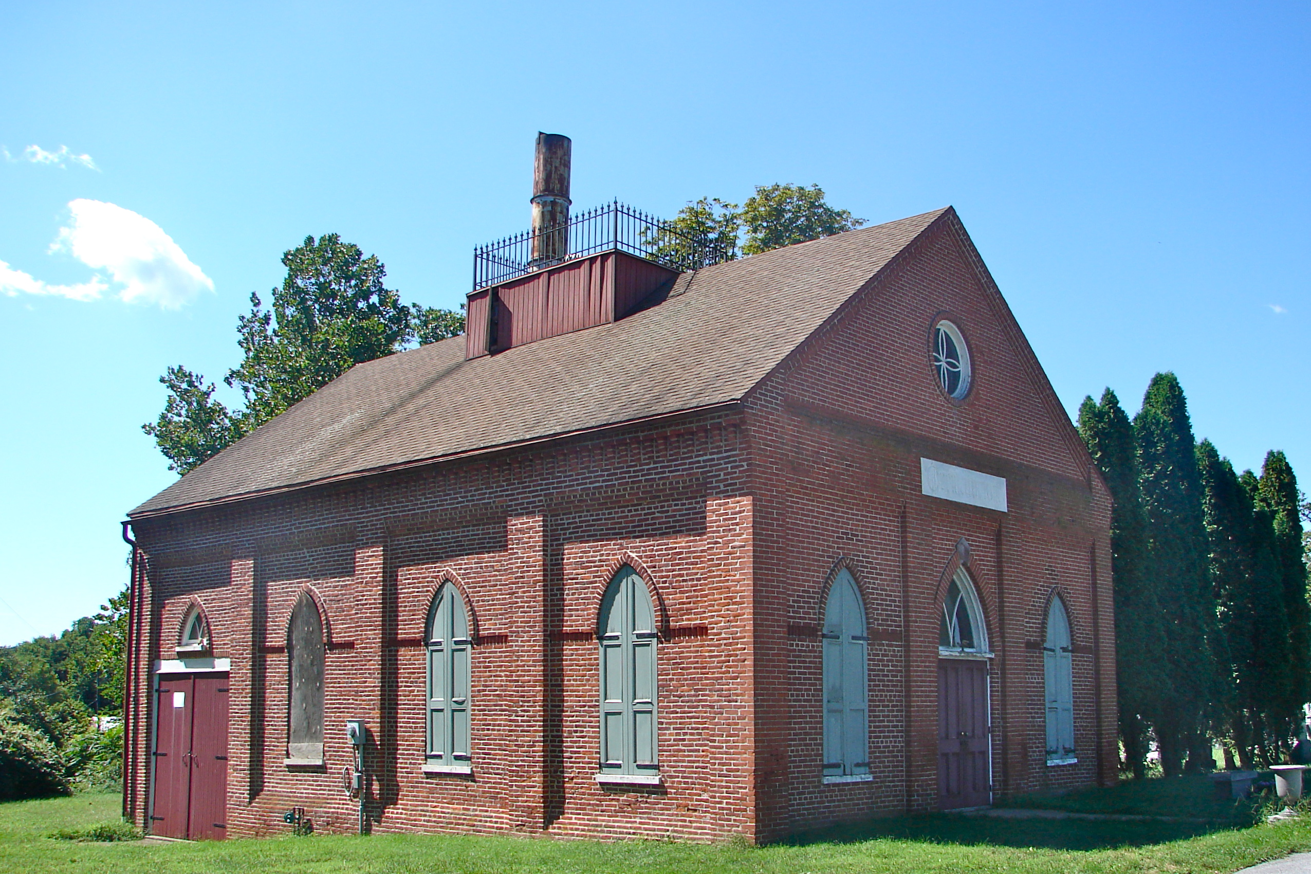 Lancaster Crematorium in Greenwood Cemetery — 719 Highland Avenue, Conestoga Heights, Lancaster, Pennsylvania. Built about 1870 in the Gothic Revival style, it was a very early crematorium in Pennsylvania. Last cremation there was in 1895. On the National Register of Historic Places since April 14, 1983